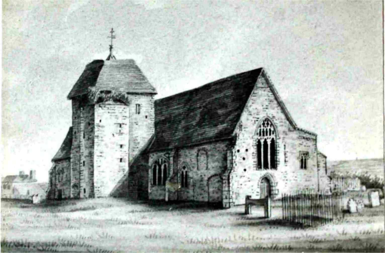 Drawing of St Mary's parish church, Sutton Valence, Kent in the 18th century